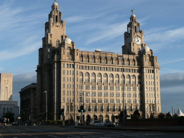 The Royal Liver Buildings With the ventilation shaft for the Mersey tunnel to the left.